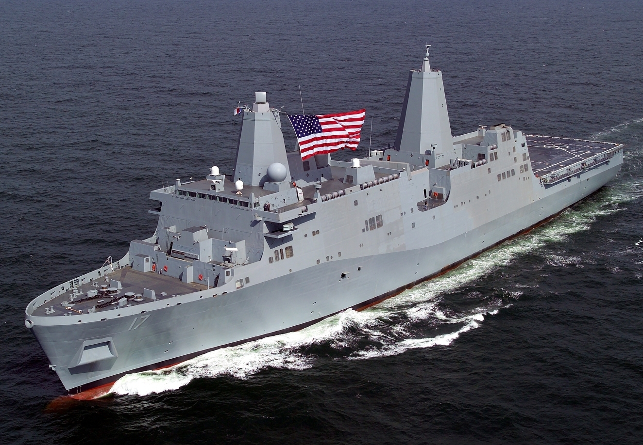 USS San Antonio, a San Antonio class amphibious transport dock Source:??